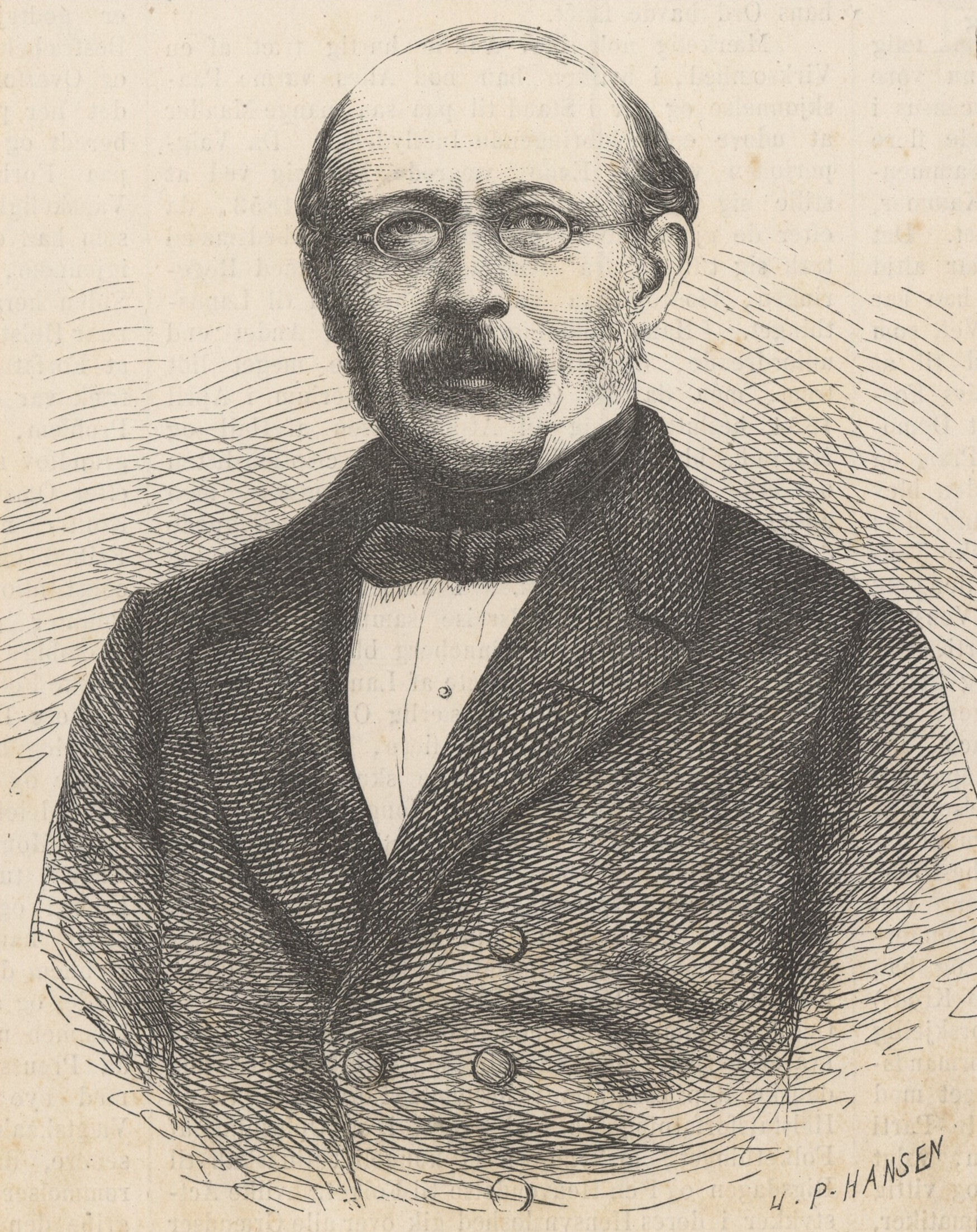 Carl Christopher Georg Andræ, danish politician